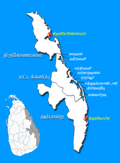 Early settlements in Eastern Sri Lanka